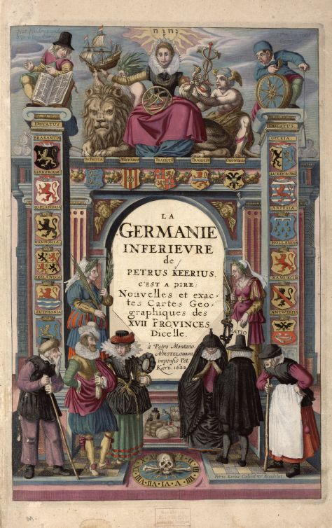 Titelpagina franse editie van de atlas: Germania Inferior door Petrus Kaerius Pieter van den Keere (1571–1646) Alternative names Peter Kaerius, Petrus Kaerius, Petrus Kerius, Pieter de KeereDescriptionSouthern Netherlandish engraver, publisher and cartographerDate of birth/death 1571 circa 1646 date QS:P,+1646-00-00T00:00:00Z/9,P1480,Q5727902Location of birth/death Ghent AmsterdamWork periodfrom 1591 until 1646 date QS:P,+1500-00-00T00:00:00Z/6,P580,+1591-00-00T00:00:00Z/9,P582,+1646-00-00T00:00:00Z/9Work location England (1584-1593), London, Amsterdam (1593-1630)Authority control : Q363934 VIAF: 29832473 ISNI: 0000 0000 8109 2656 ULAN: 500057940 LCCN: n50060953 DBNL: keer012 WorldCat creator QS:P170,Q363934